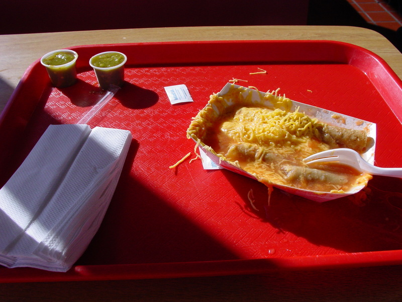 An order of rolled tacos from Chico's Tacos on McRae Blvd in El Paso